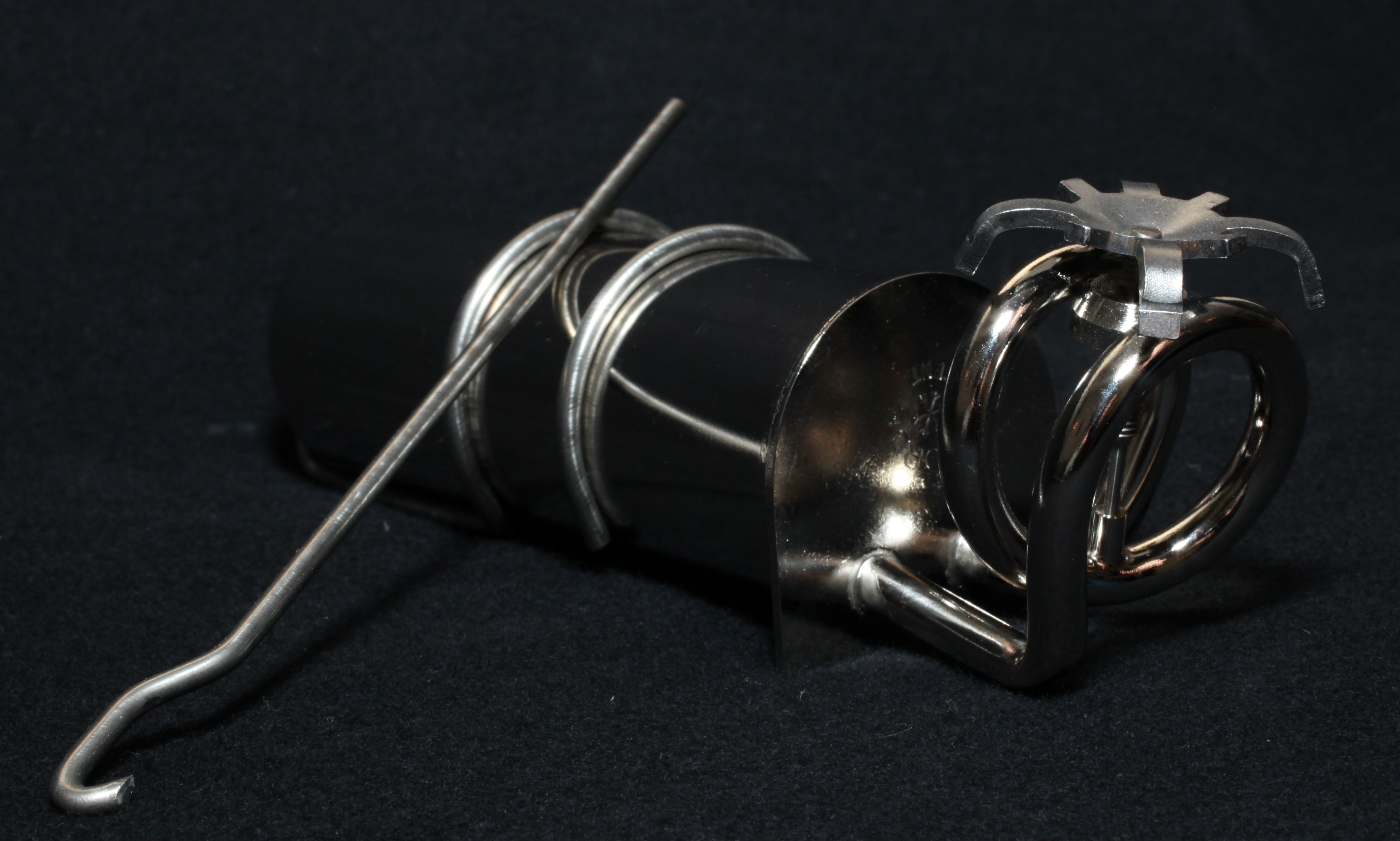 A swiss-made Borde Benzinbrenner. Originally invented by Joseph Borde, it is a self-feeding petrol burner. Weighs 255 grams empty, measures 18x4x5 cm (l, w, h).